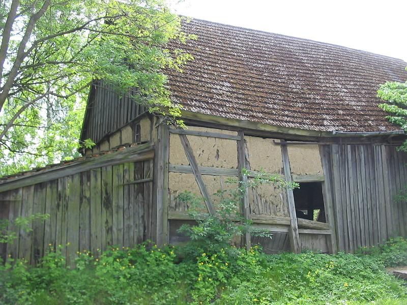 Old barn in the village Lütte, a part of the town Belzig in Brandenburg, Germany